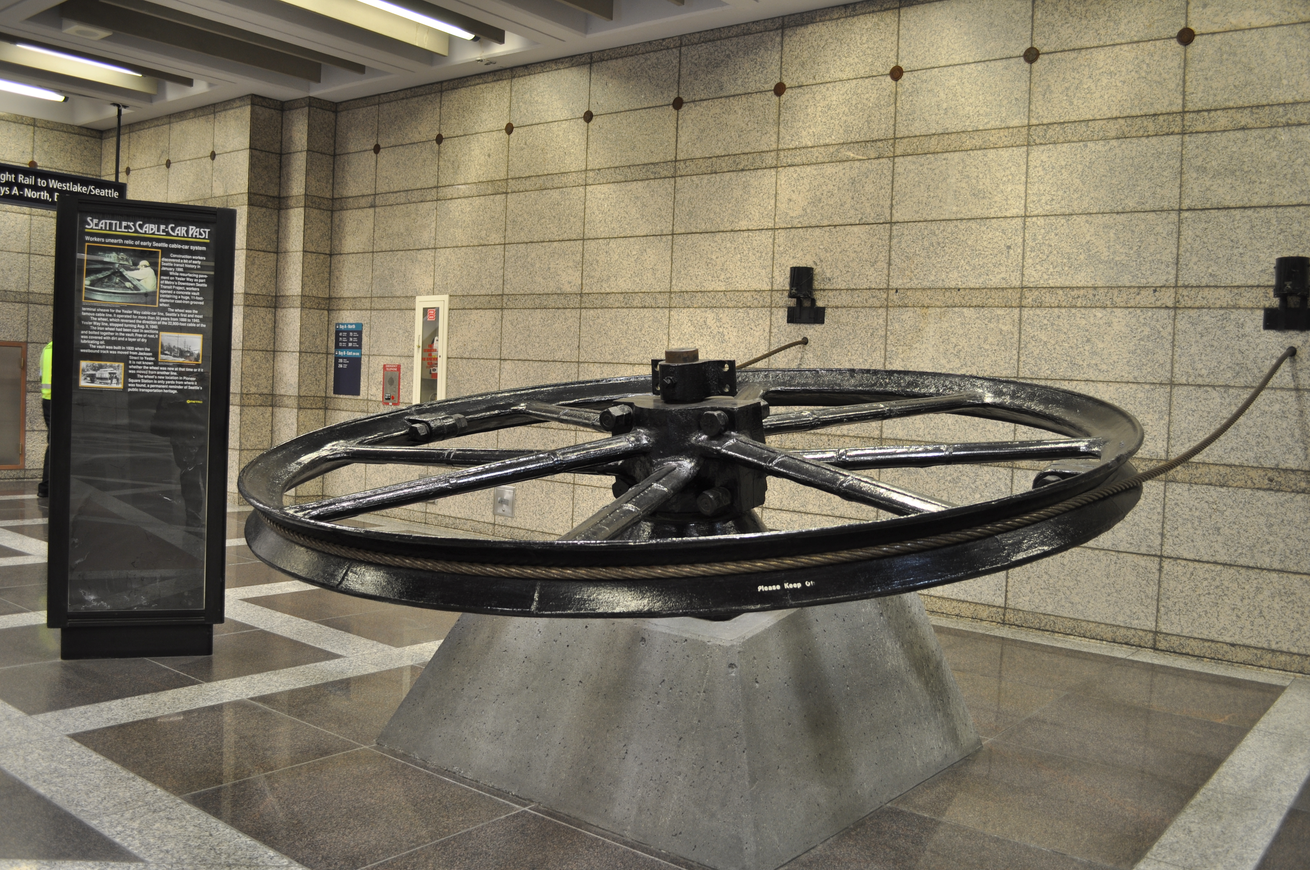 Terminal sheave of the cable car that ran on Yesler Way in Seattle, Washington, USA. Used at least from 1920 until the line was shut down August 9, 1940. Now part of the Pioneer Street station of the Downtown Seattle Transit Tunnel.